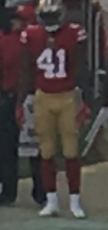 Jeff Wilson in 2018